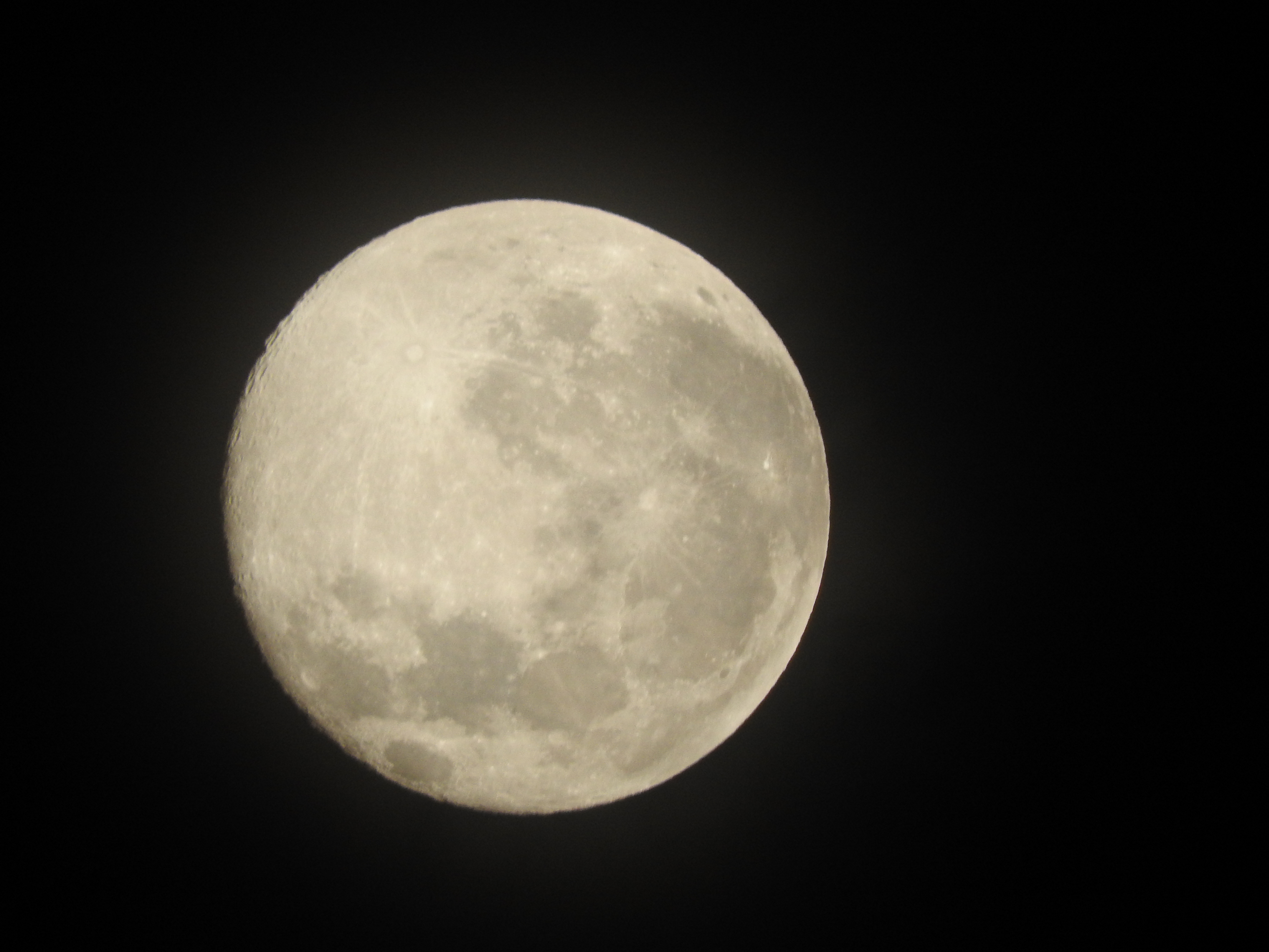 Fotografía sacada el Lunes 10 de Febrero de 2020